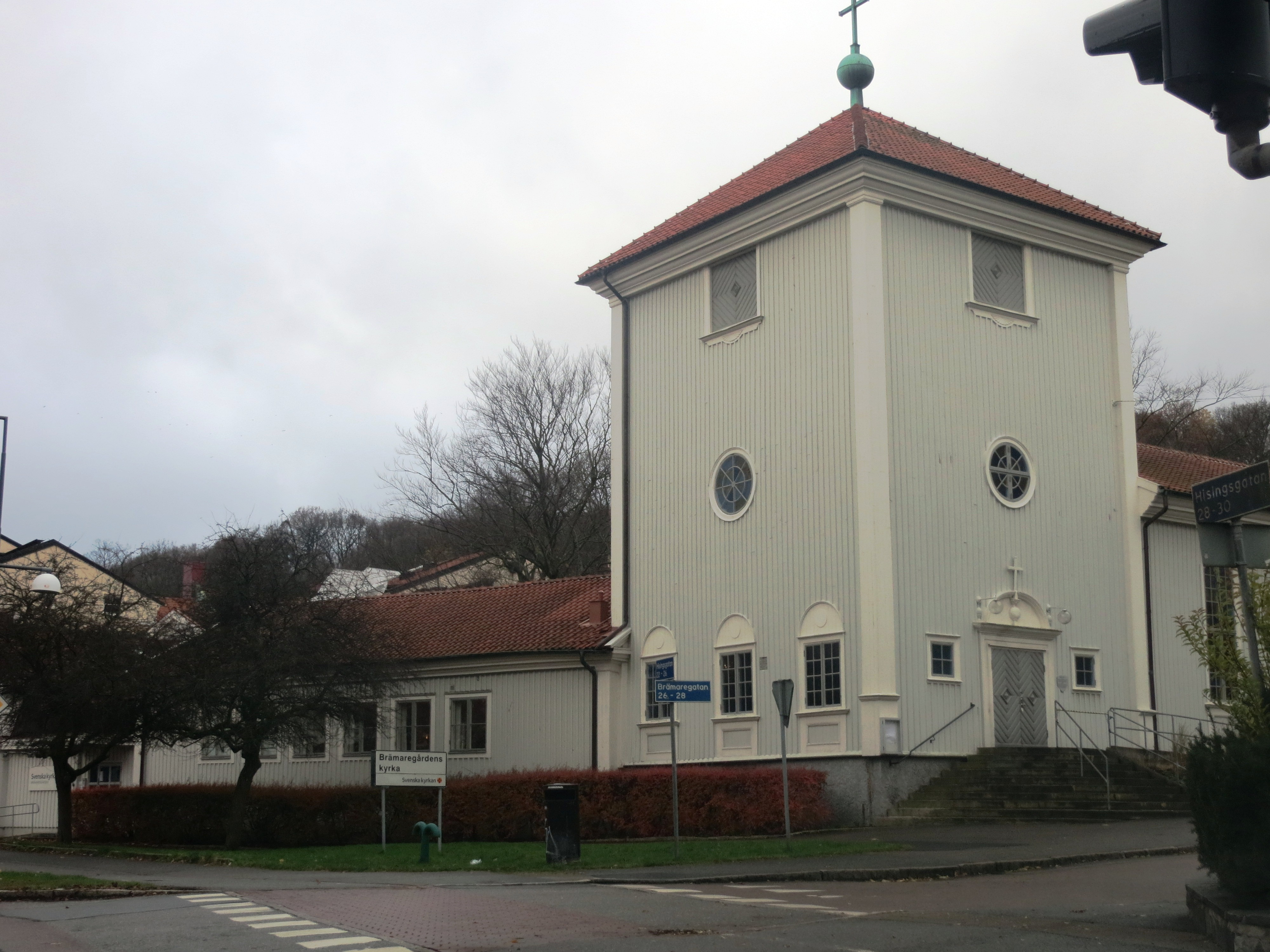 Image from the Hisingen western part of Gothenburg, Sweden